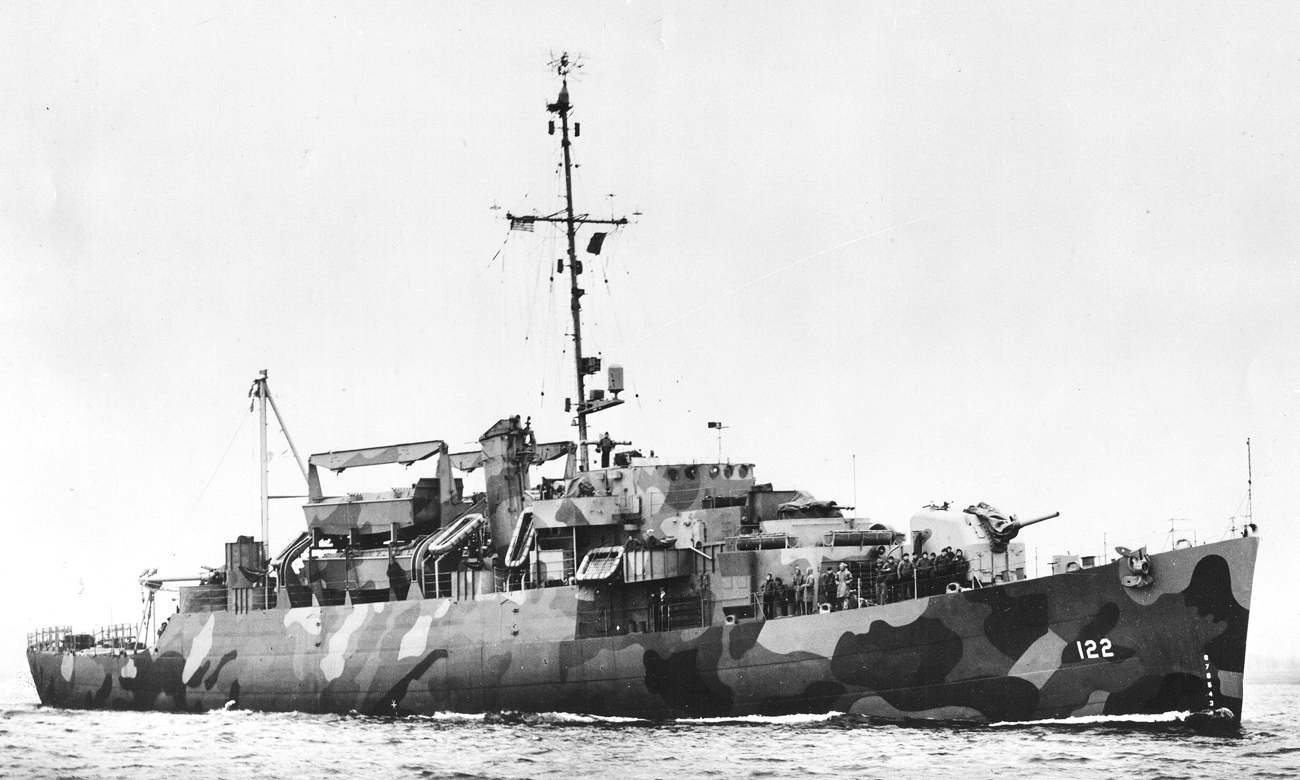 The U.S. Navy high-speed transport USS Scribner (APD-122) underway off Boston, Massachusetts (USA), on 20 October 1944. She is painted in Camouflage Measure 31, Design 20L.